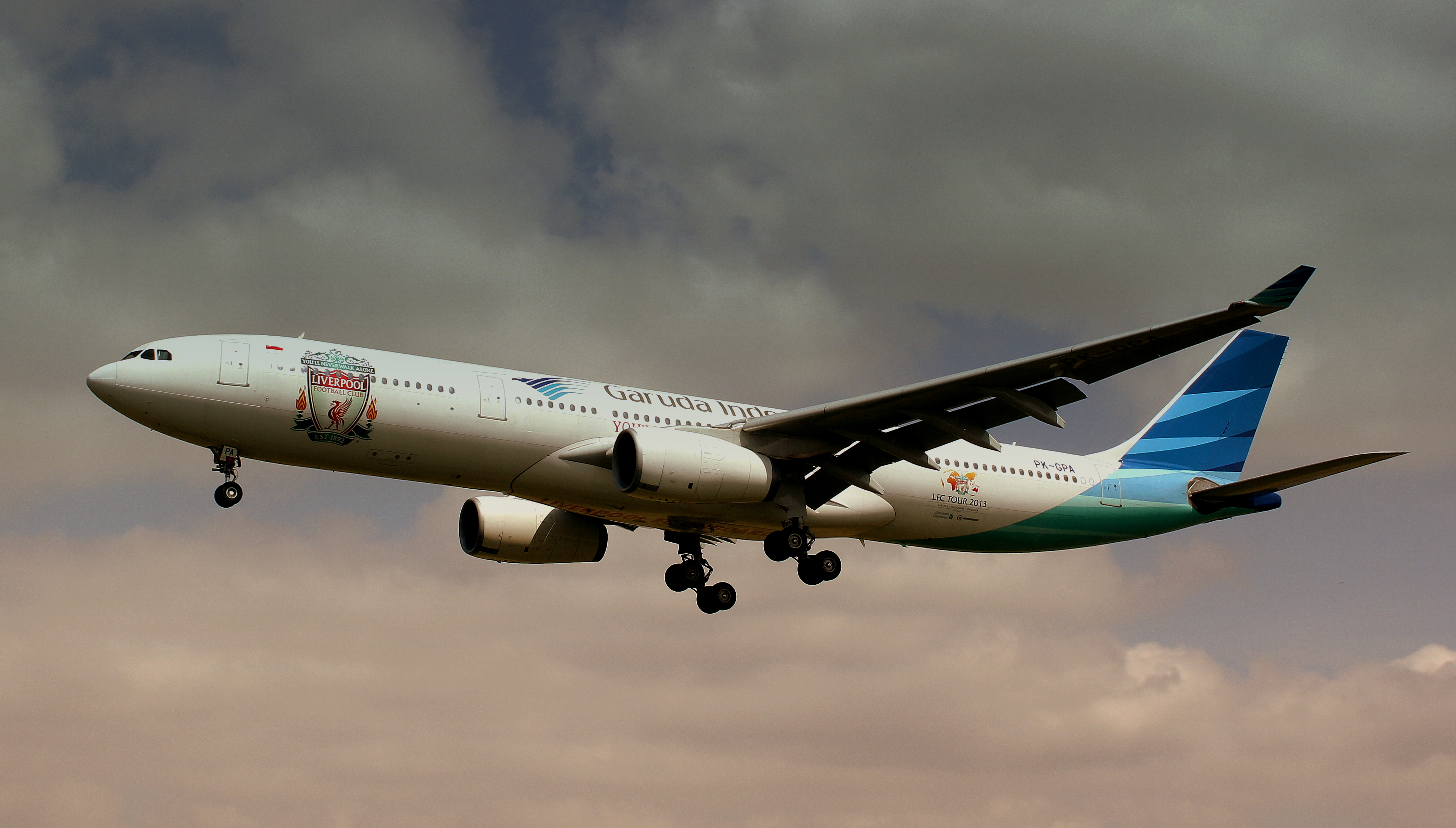 Garuda Indonesia, is the official Far East travel partner for Liverpool football club,and their Indonesia and Australia tour july 2013.